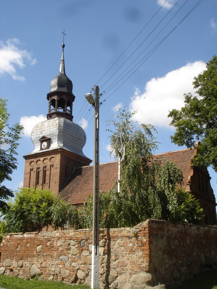 Church in Zaborsko, Poland, West Pomeranian Voivodeship, Pyrzyce Country, commune Warnice